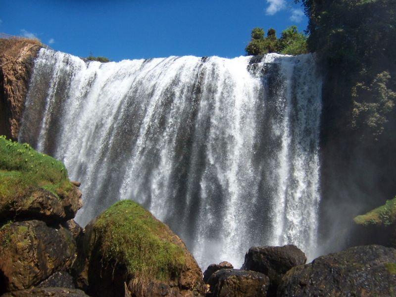 Elephant waterfall in Dalat, Lam Dong, Vietnam